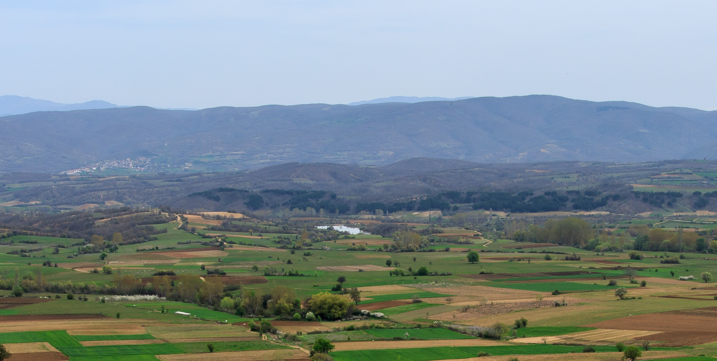 View of the village Lubnica, Macedonia